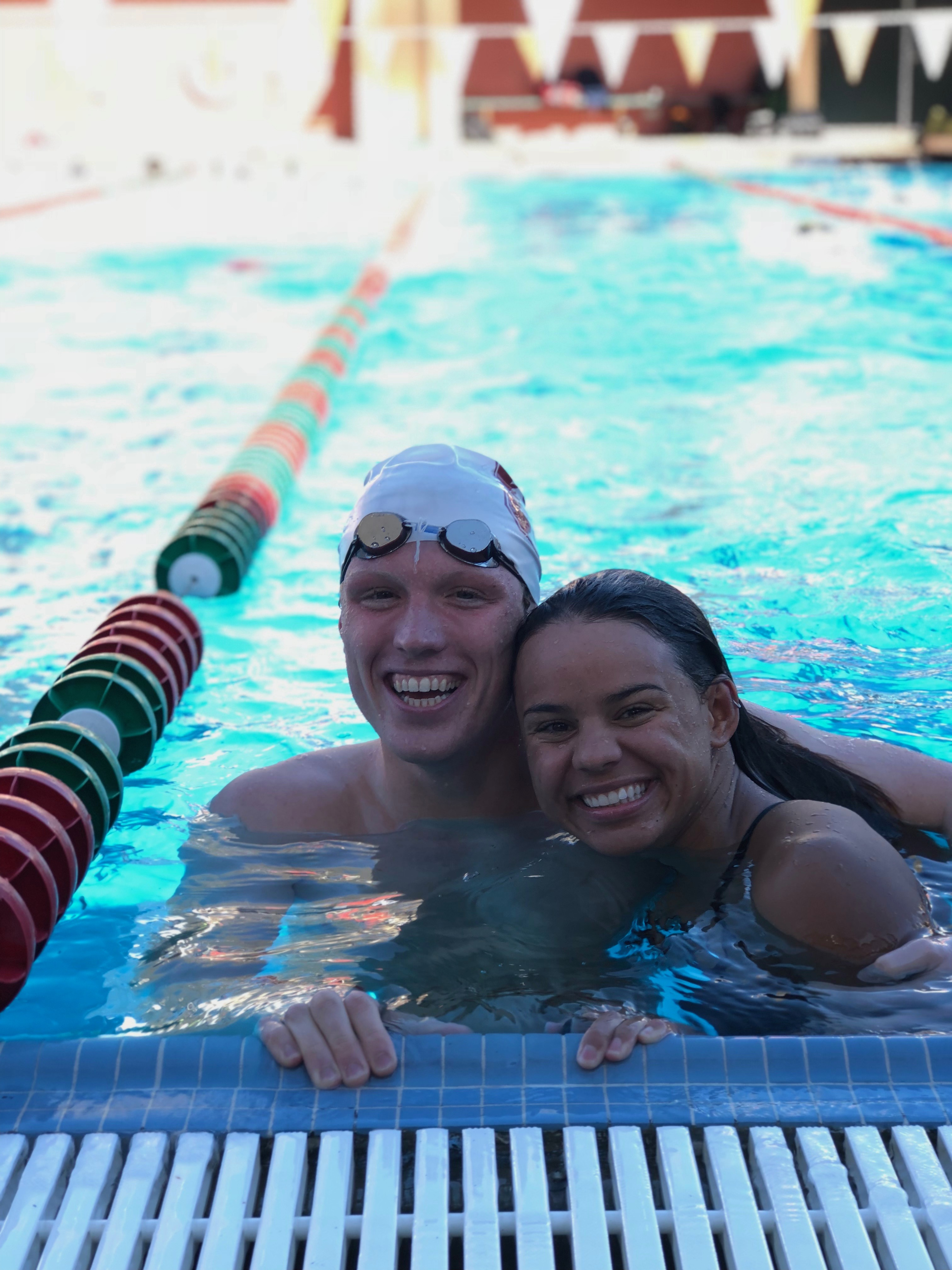 Best friends. RIP Cascade Swim Club